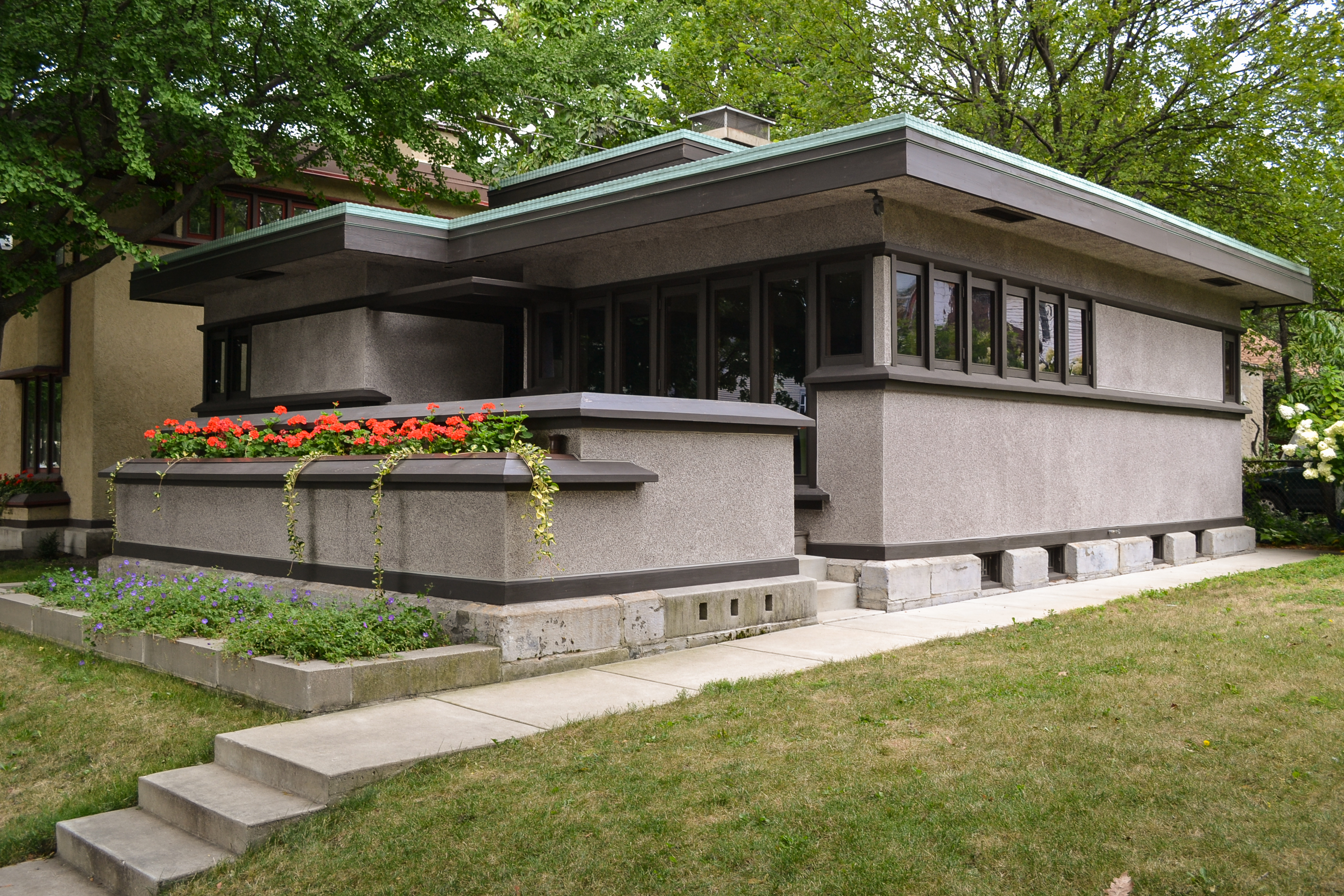 Model B1 bungalow located at 2714 W Burnham St in Milwaukee, Wisconsin. Part of series of American Series Built Homes. (43°00′38″N 87°56′55″W)